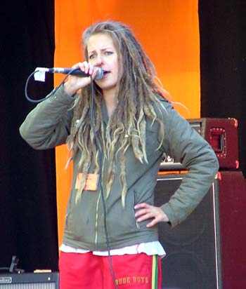 Finnish hip-hop artist Mariska in a concert in Kallio, Helsinki, Finland, on May 23, 2004.